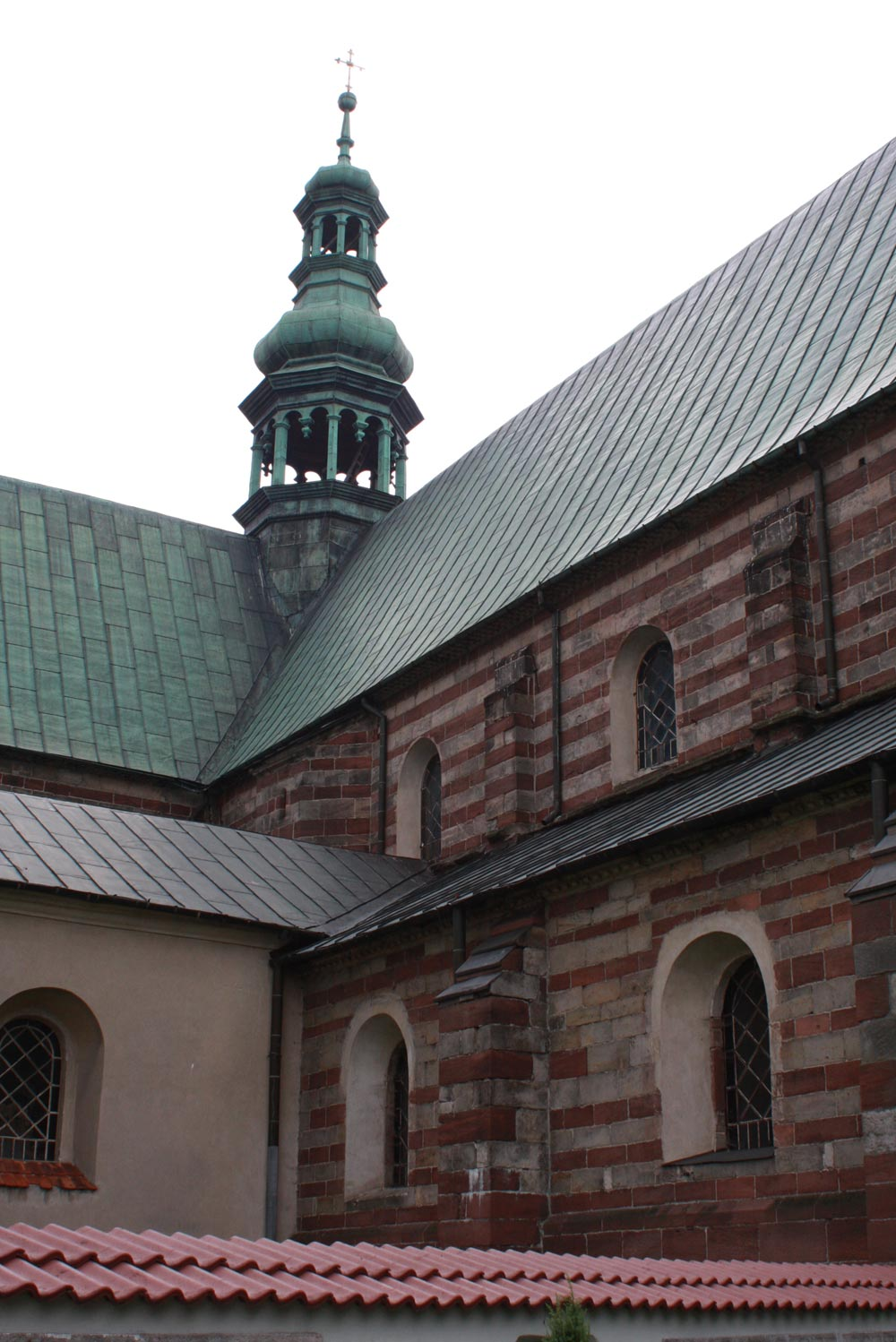 External view on Wachock Cistercian Abbey (13th century)